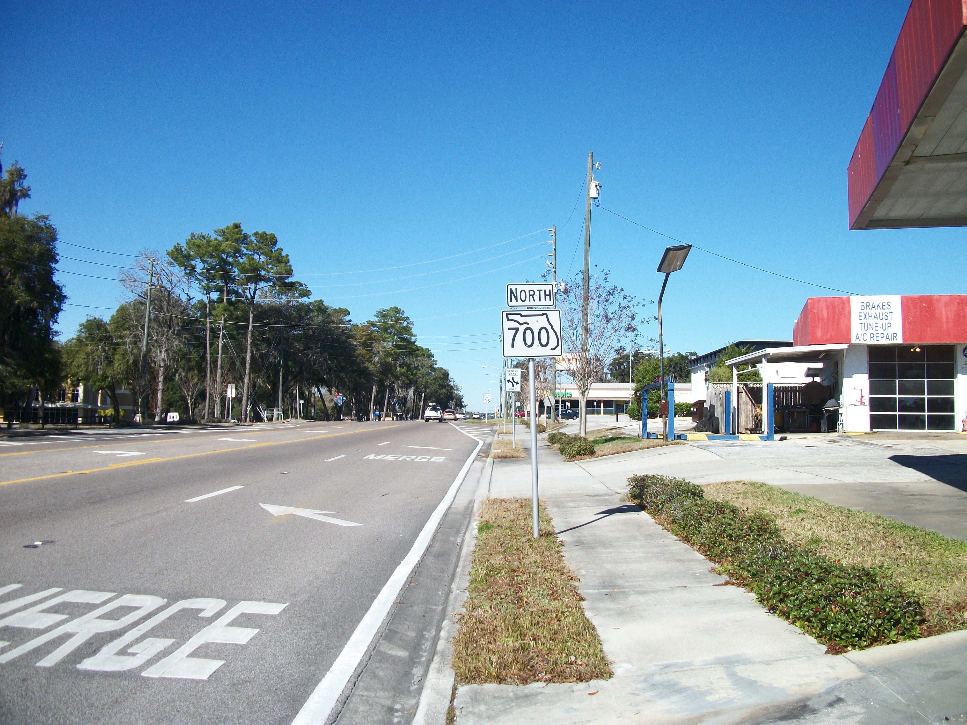 The first reassurance sign for Florida State Road 700, just north of the intersection of US 41, in Brooksville, Florida. Though SR 700 spans from Palm Beach to Chassahowitzka, Brooksville is one of only only two places along the route where it's not a hidden state road along U.S. 98.